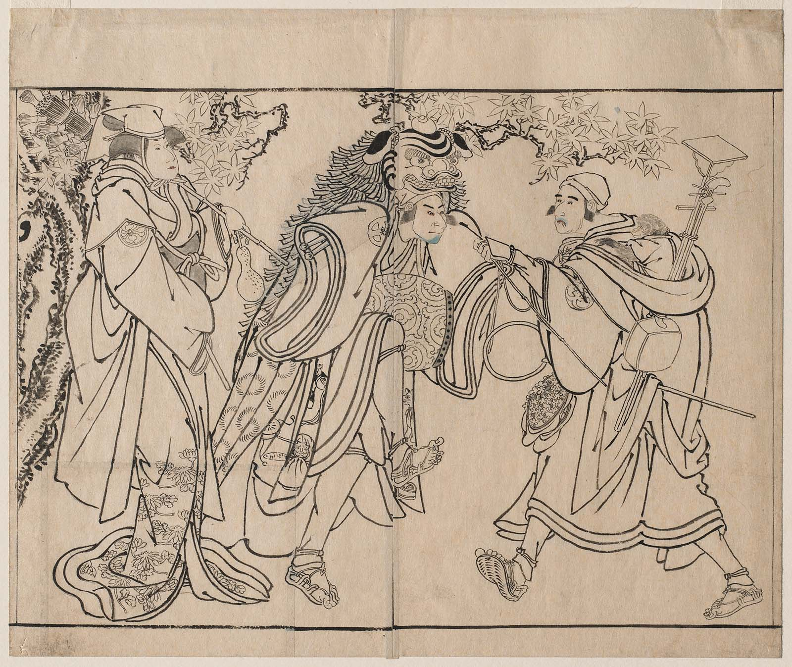 Han-shita-e for an unpublished ukiyo-e book by Japanese artist Tōshūsai Sharaku